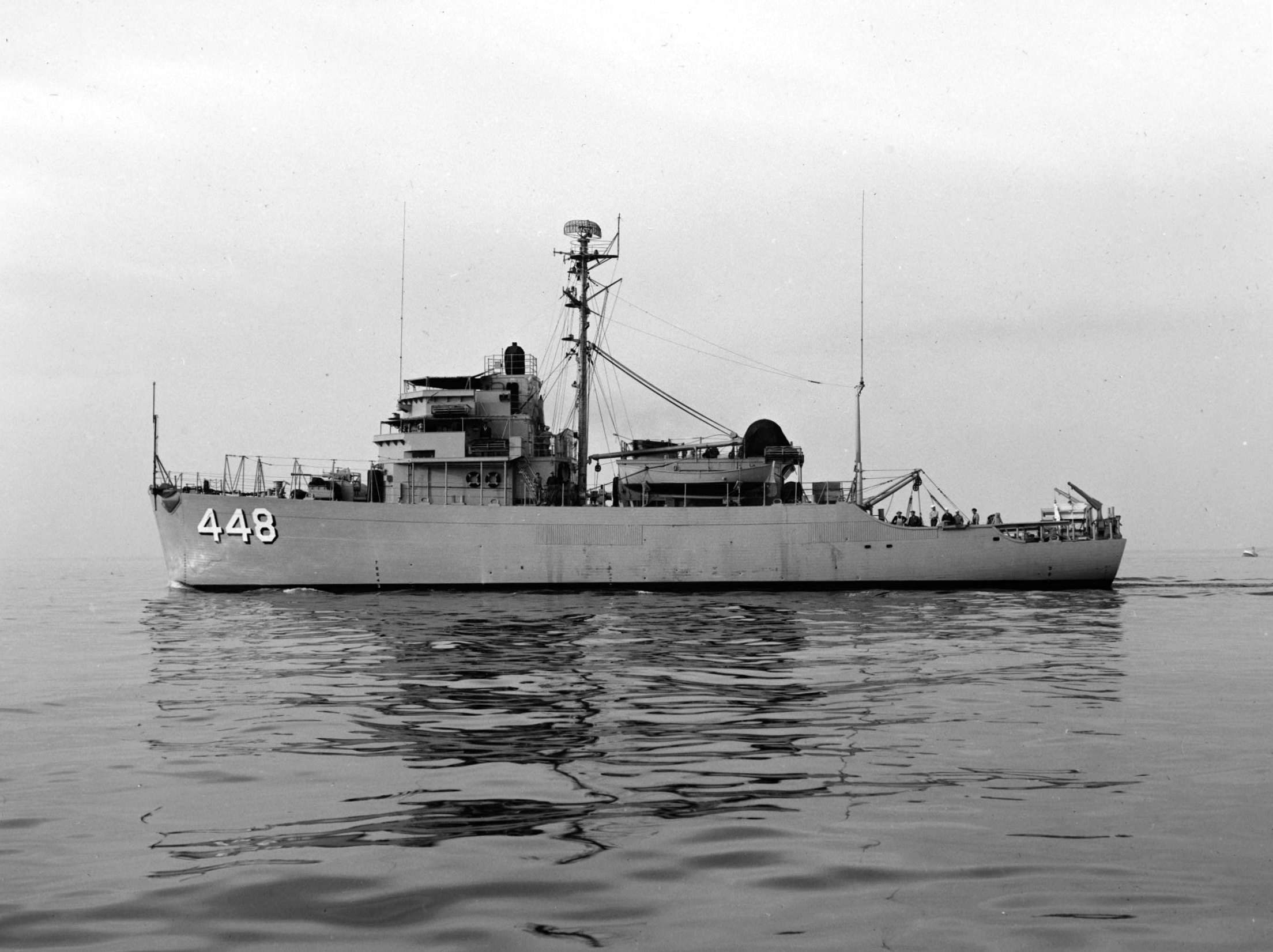 The U.S. Navy minesweeper USS Illusive (MSO-448) underway, in October 1953.